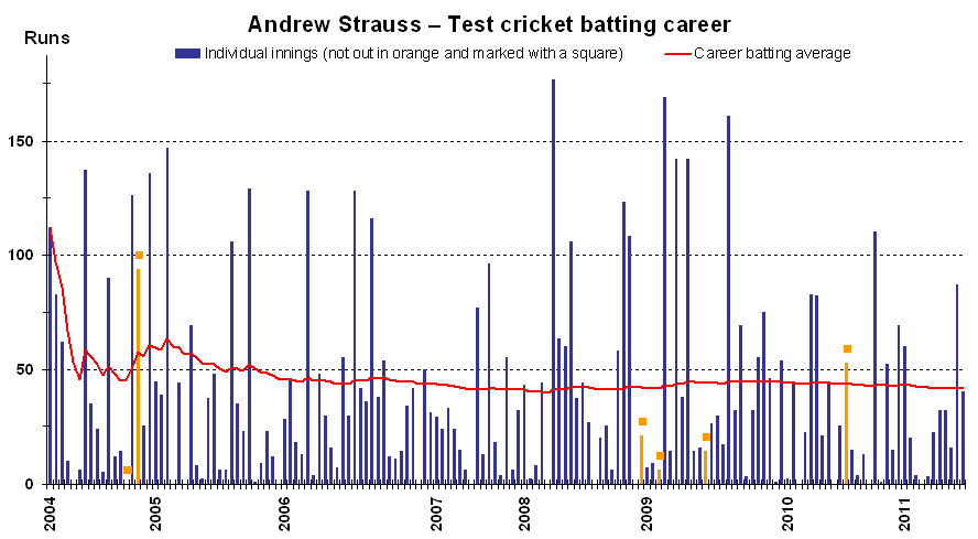 This graph details the test match performance of cricketer Andrew Strauss and was created by en.wiki user:EdChem. Each bar indicates a single test match innings, blue ones for innings in which he was dismissed, orange ones (marked with a square) for innings in which he batted but was not out. The red line shows career batting average as at the end of each innings. An alternative version, File:Andrew Strauss test batting career v2.png instead shows a 10 innings moving average. The graph was generated with Microsoft Excel 2003, the resulting chart being copied to Adobe Photoshop 9 and saved in .png format, using data from Cricinfo [1] and Howstat [2]. This version is current as at 14 January 2012, which is also the date it was prepared. This graph details the test match performance of cricketer Andrew Strauss and was created by en.wiki user:EdChem. Each bar indicates a single test match innings, blue ones for innings in which he was dismissed, orange ones (marked with a square) for innings in which he batted but was not out. The red line shows career batting average as at the end of each innings. An alternative version, File:Andrew Strauss test batting career v2.png instead shows a 10 innings moving average. The graph was generated with Microsoft Excel 2003, the resulting chart being copied to Adobe Photoshop 9 and saved in .png format, using data from Cricinfo [3] and Howstat [4]. This version is current as at 14 January 2012, which is also the date it was prepared.